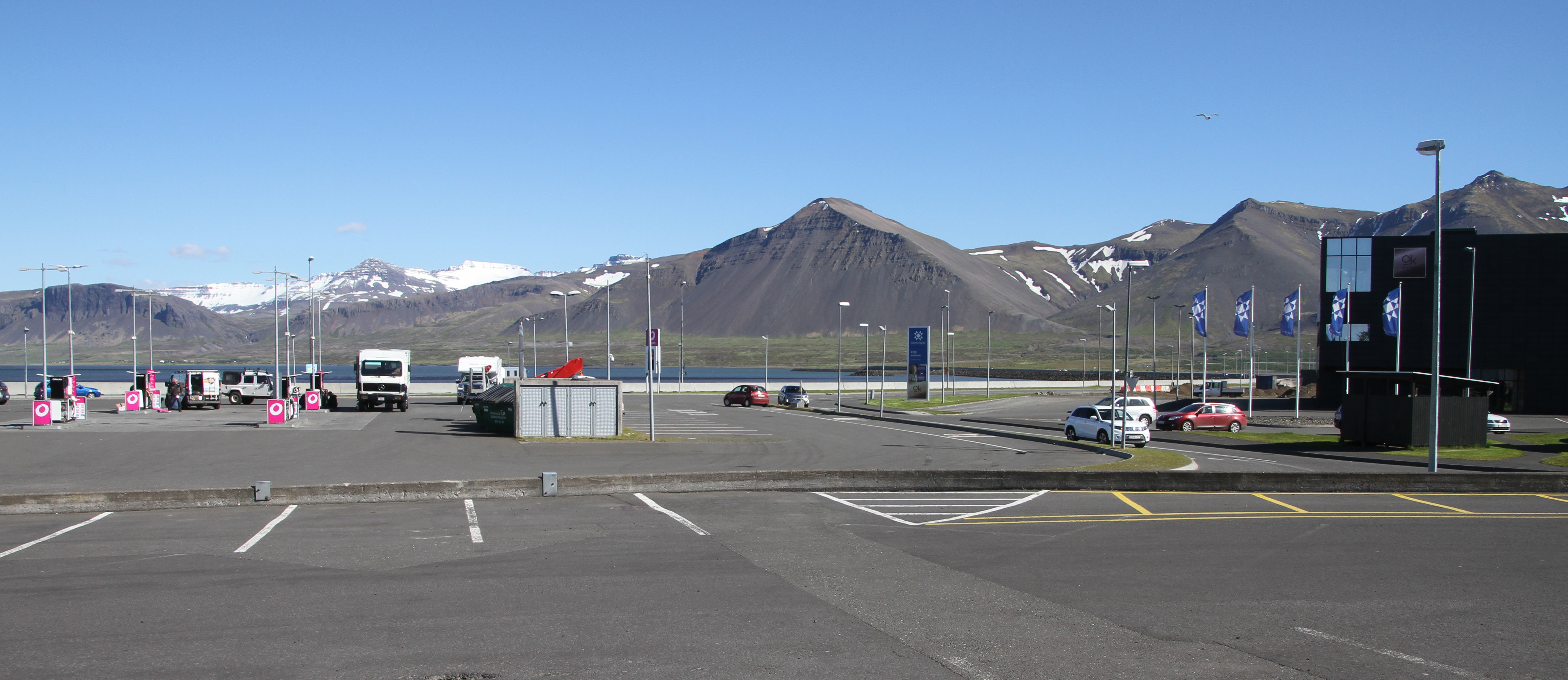 Petrol station in Borgarnes